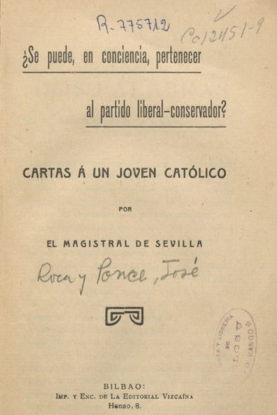 description: cover page of ¿Se puede, en conciencia, pertenecer al partido liberal-conservador?